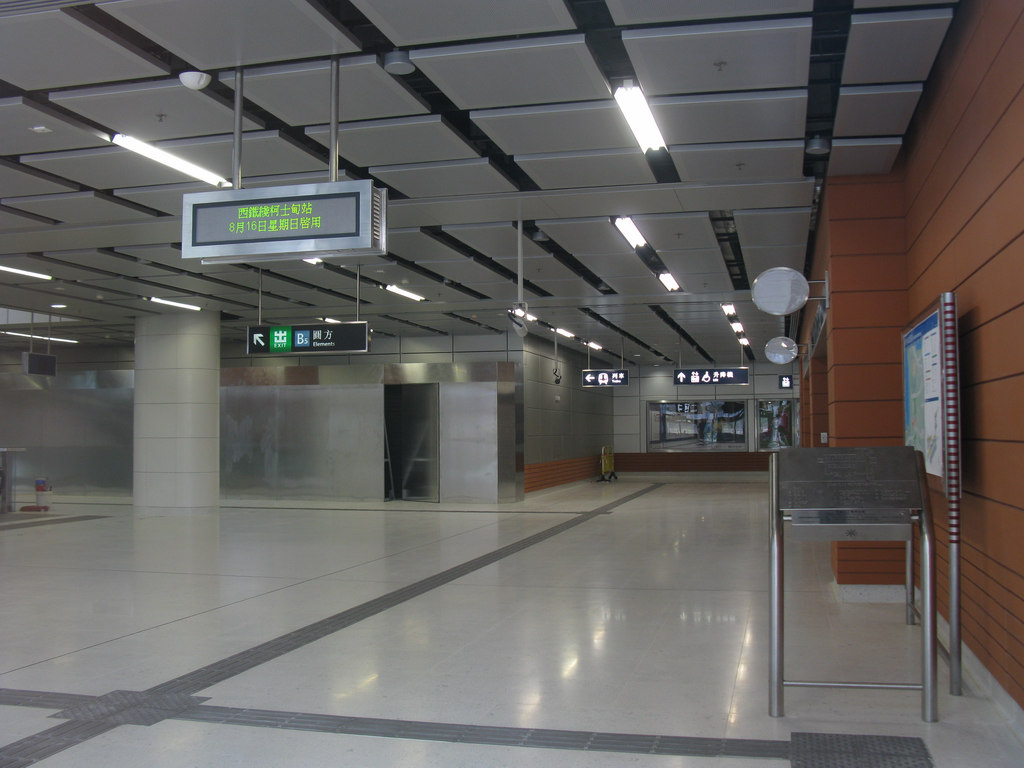 West Rail Line North Concourse of Austin Station